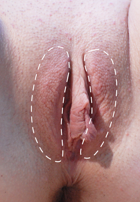 Human vulva. Labia majora outlined.